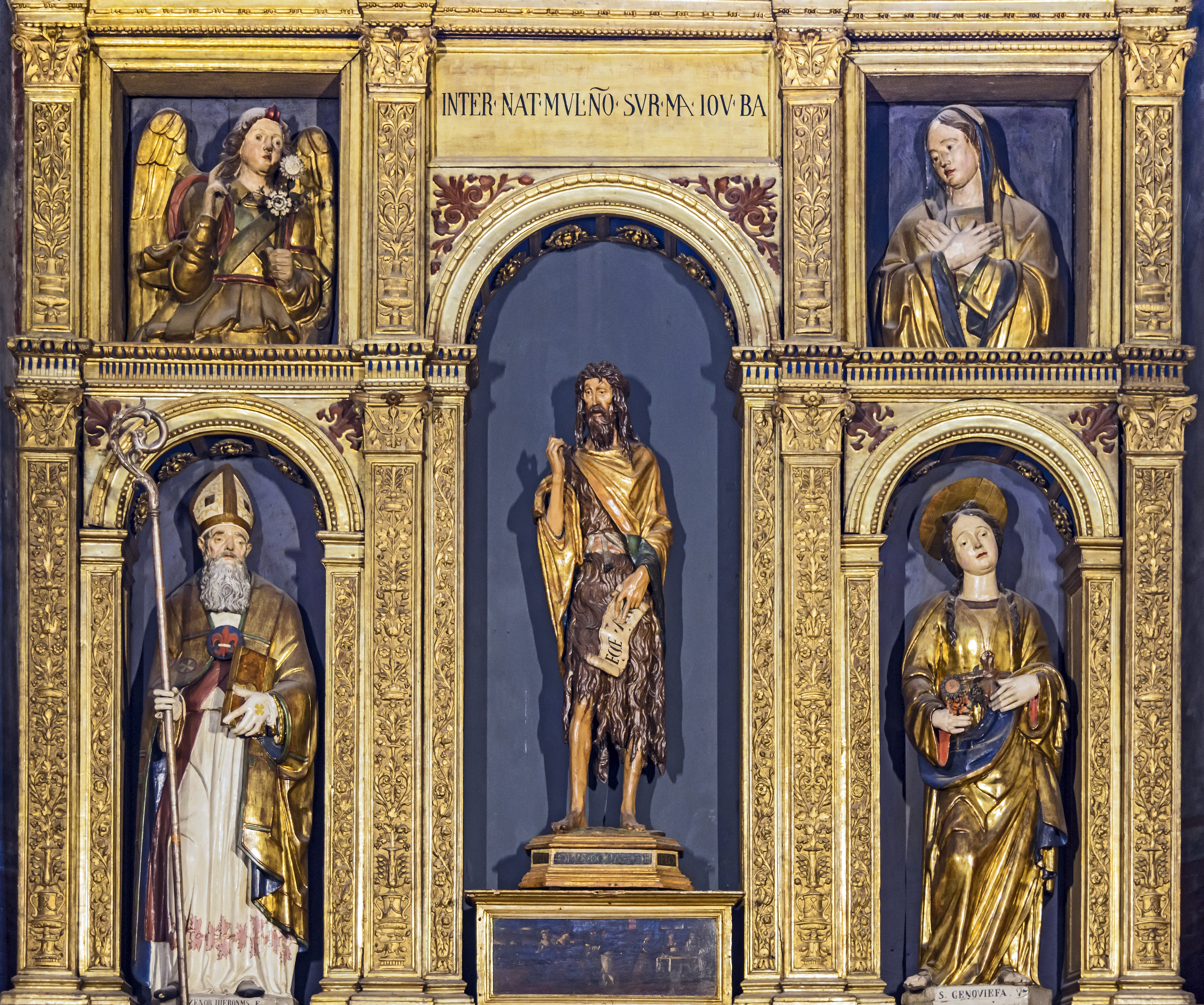 The Basilica di Santa Maria Gloriosa dei Frari. Cappella di San Giovanni Battista (Chapel of St. John the Baptist). The altarpiece with the center, the only statue of Donatello in Venice; it represents Saint John Bapstiste. 1.55 m - golden polychrome wood - signed and dated 1438.